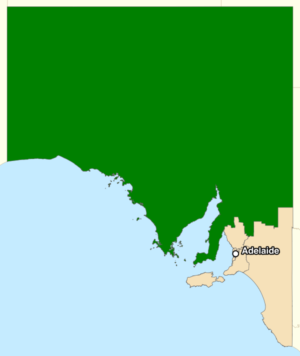 The Division of Grey (dark green) in the state of South Australia. This image incorporates data that is: © Commonwealth of Australia (Australian Electoral Commission) 2014